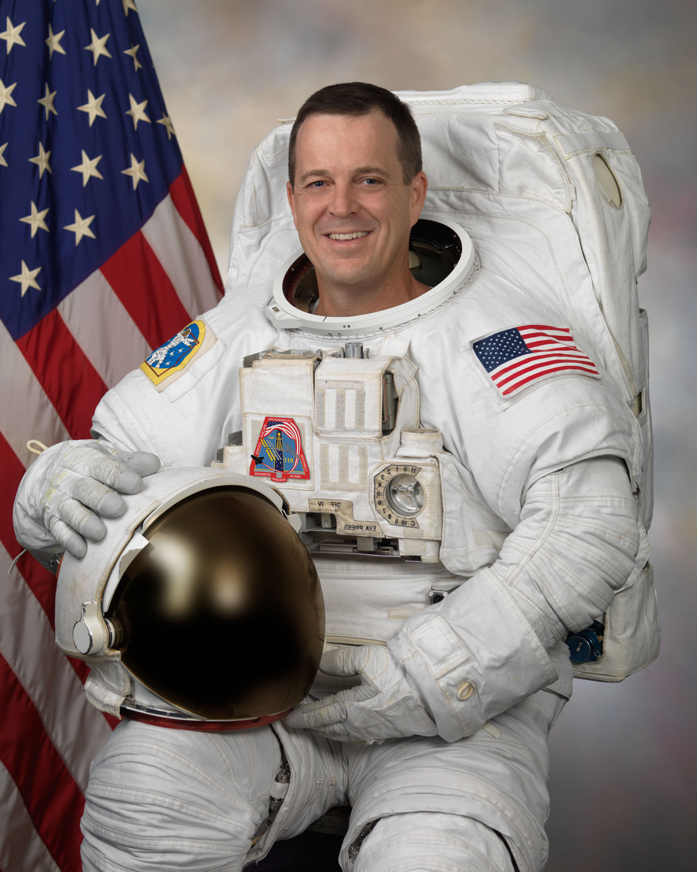 Official portrait image of NASA astronaut Richard R. Arnold